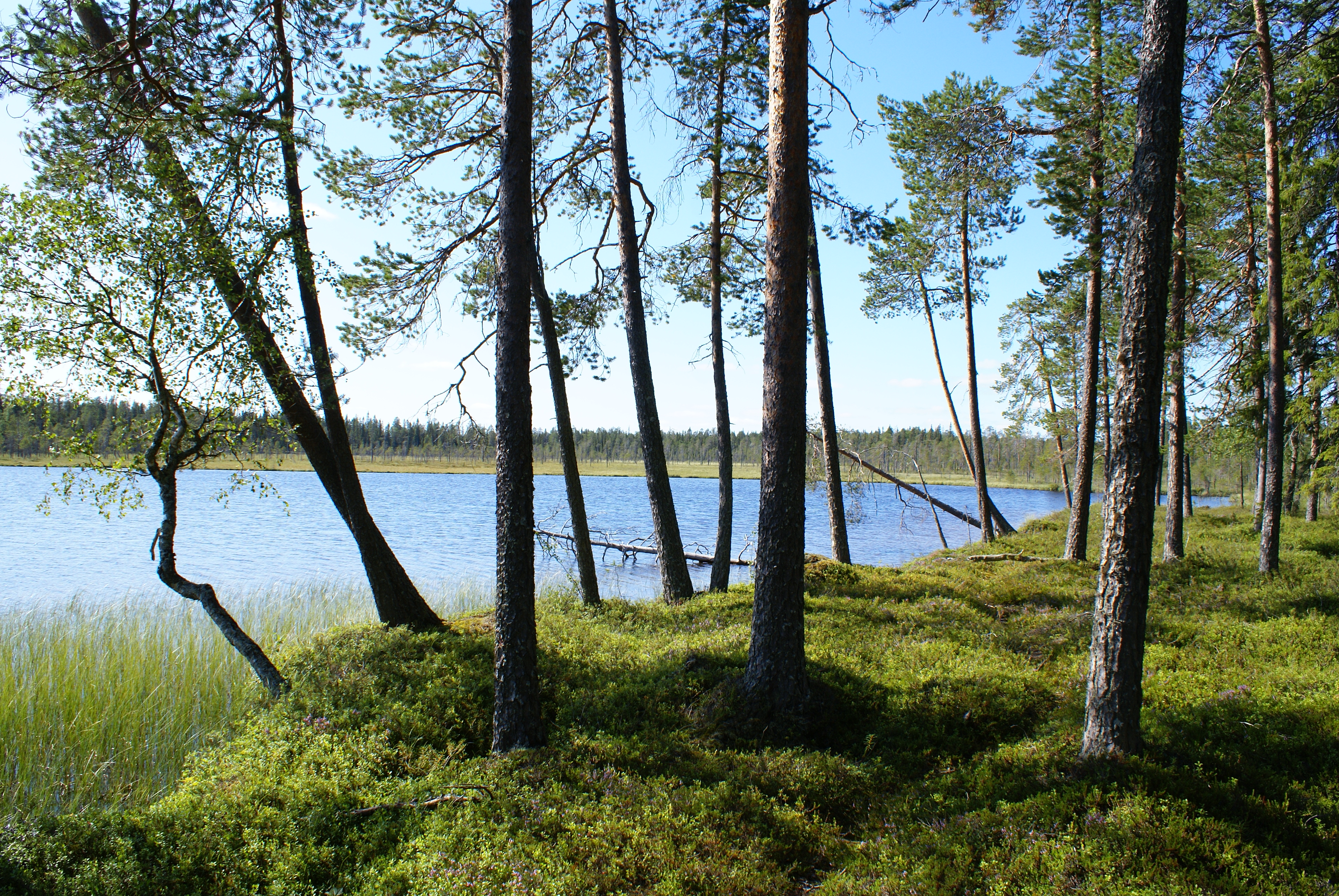 The shore of the lake Iso-Ahveninen in the Kylmäluoma Hiking Area, in Taivalkoski, Finland.